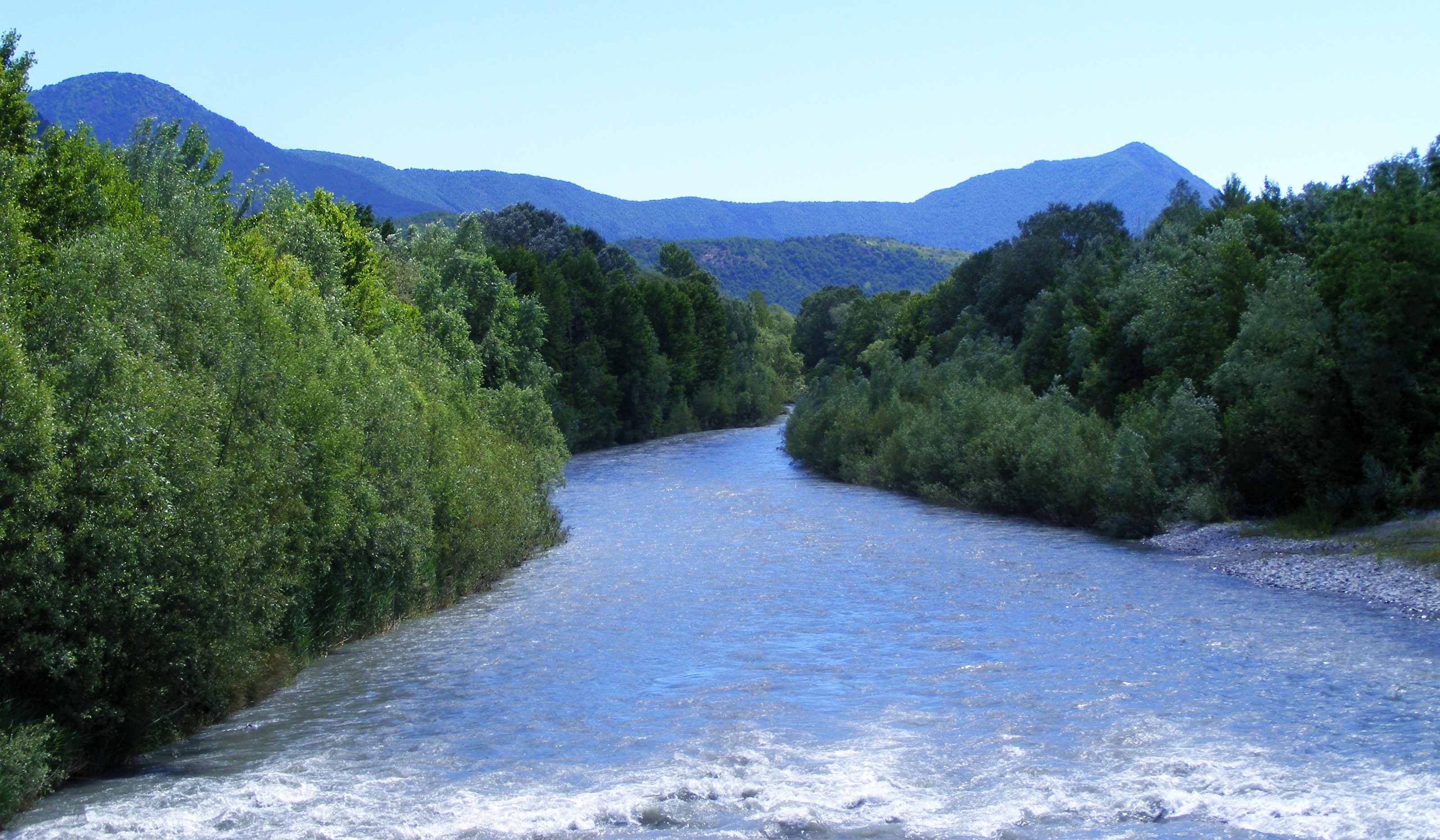 The Dora Riparia near Condove (TO, Italy), in the background monte Curt (left) and monte Musinè (right)